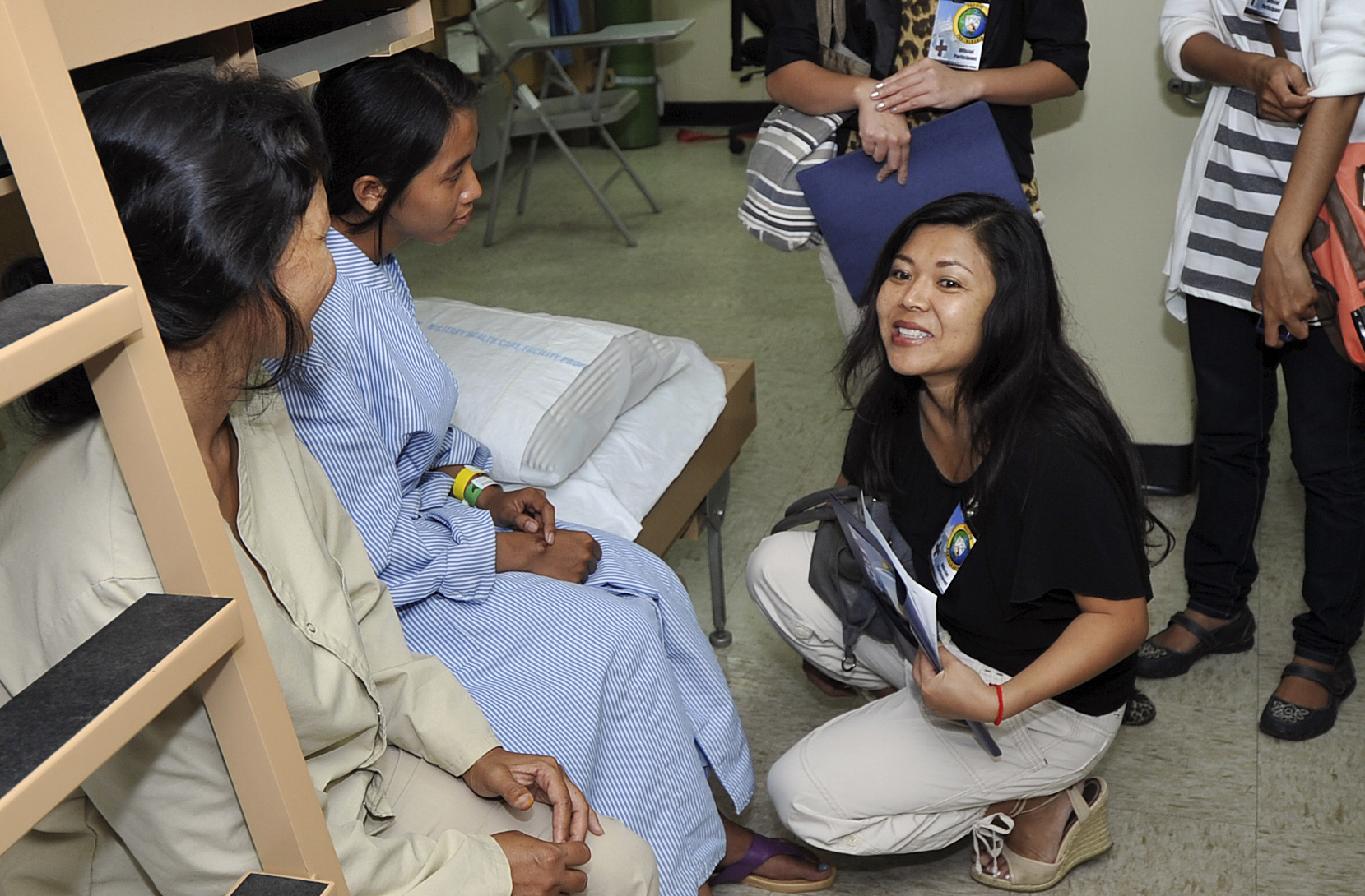 Princess Soma Norodom of Cambodia, right, visits patients aboard the hospital ship USNS Mercy (T-AH 19) Aug. 5, 2012, during Pacific Partnership 2012 in Sihanoukville, Cambodia. Pacific Partnership is an annual deployment of forces designed to strengthen maritime and humanitarian partnerships during disaster relief operations, while providing humanitarian, medical, dental and engineering assistance to nations of the Pacific.